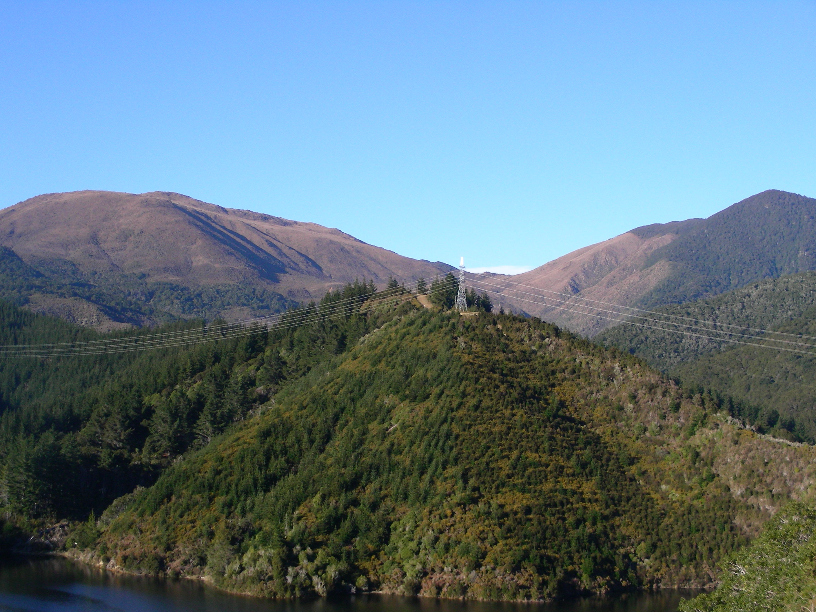 Dun Mountain (far left) and Wooded Peak (far right) in the Nelson Region of New Zealand. The photo was taken in the upper Maitai Valley overlooking a man-made lake. Note the lack of vegetation on the ultramafic rock which makes up Dun Mountain.